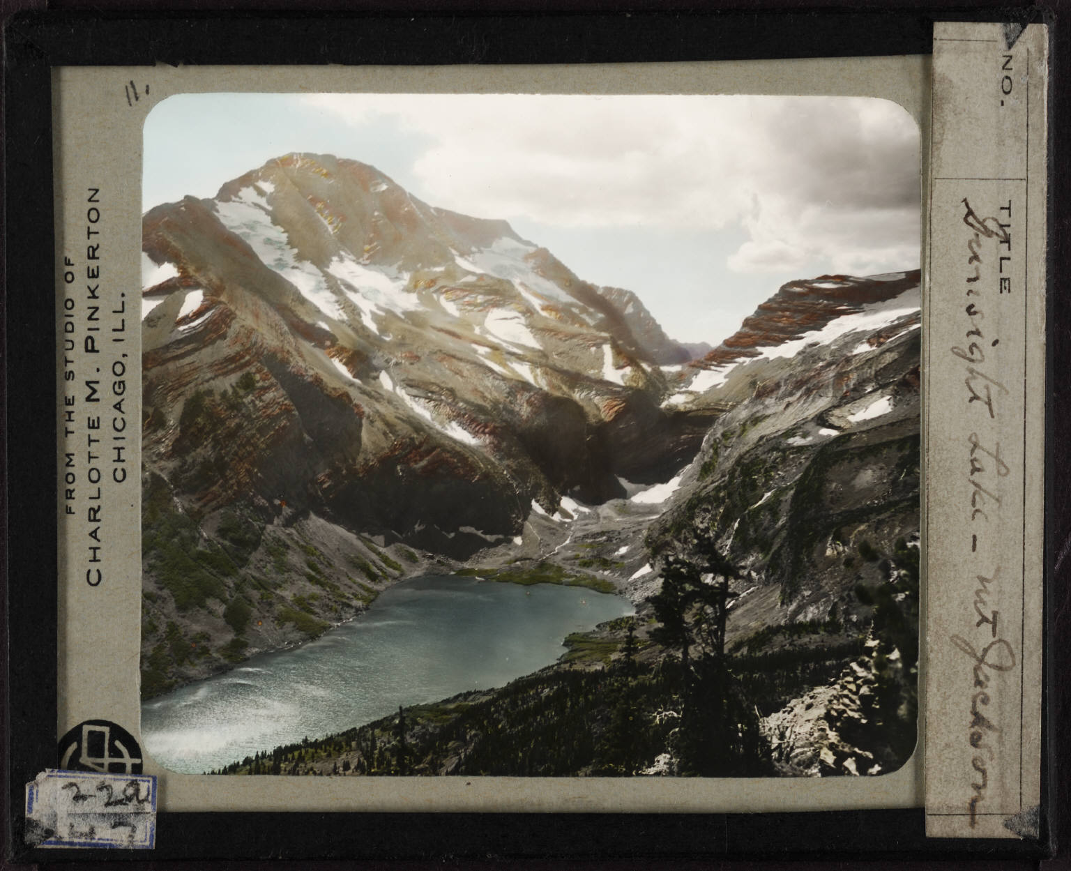 Author/Creator: McClintock, Walter, 1870-1949. Blazer, Charlotte Pinkerton. Date: undated Part of: Walter McClintock papers, 1874-1946. Physical Description: 1 lantern slide hand col. 8 x 10 cm. Folder or box number: Lantern slides box 1 Subjects: Indians of North America. Siksika Indians. Montana. Genre/Form: Lantern slides Cite as: Yale Collection of Western Americana, Beinecke Rare Book and Manuscript Library Repository: Beinecke Rare Book and Manuscript Library, Yale University Bibliographic Record Number: 2008370 Call Number: WA MSS S-1175 View our Record: Permalink